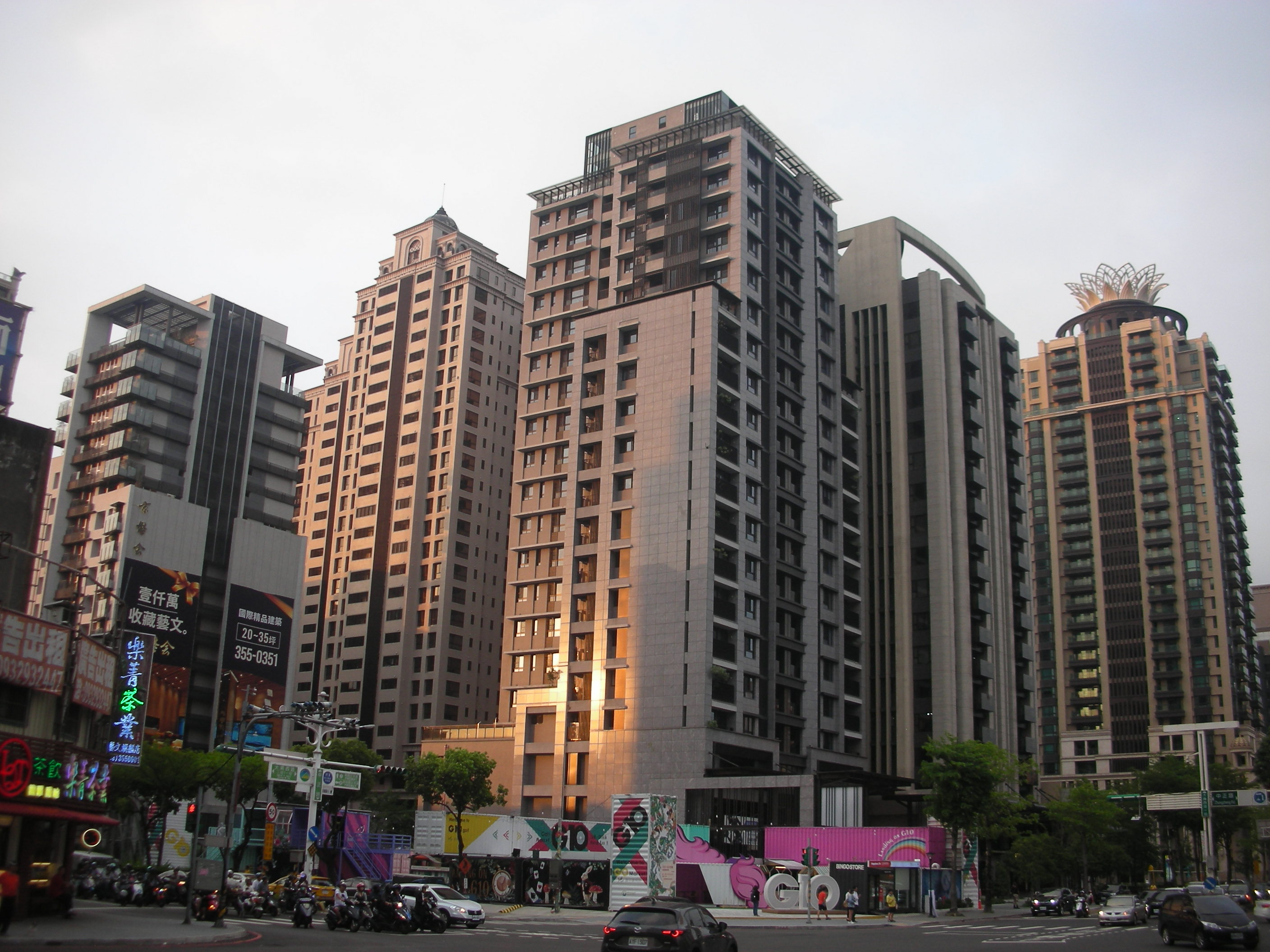 Skyline of highrise buildings in Taoyuan, Taiwan near the Zhongzheng Road and Daxing West Road intersection.